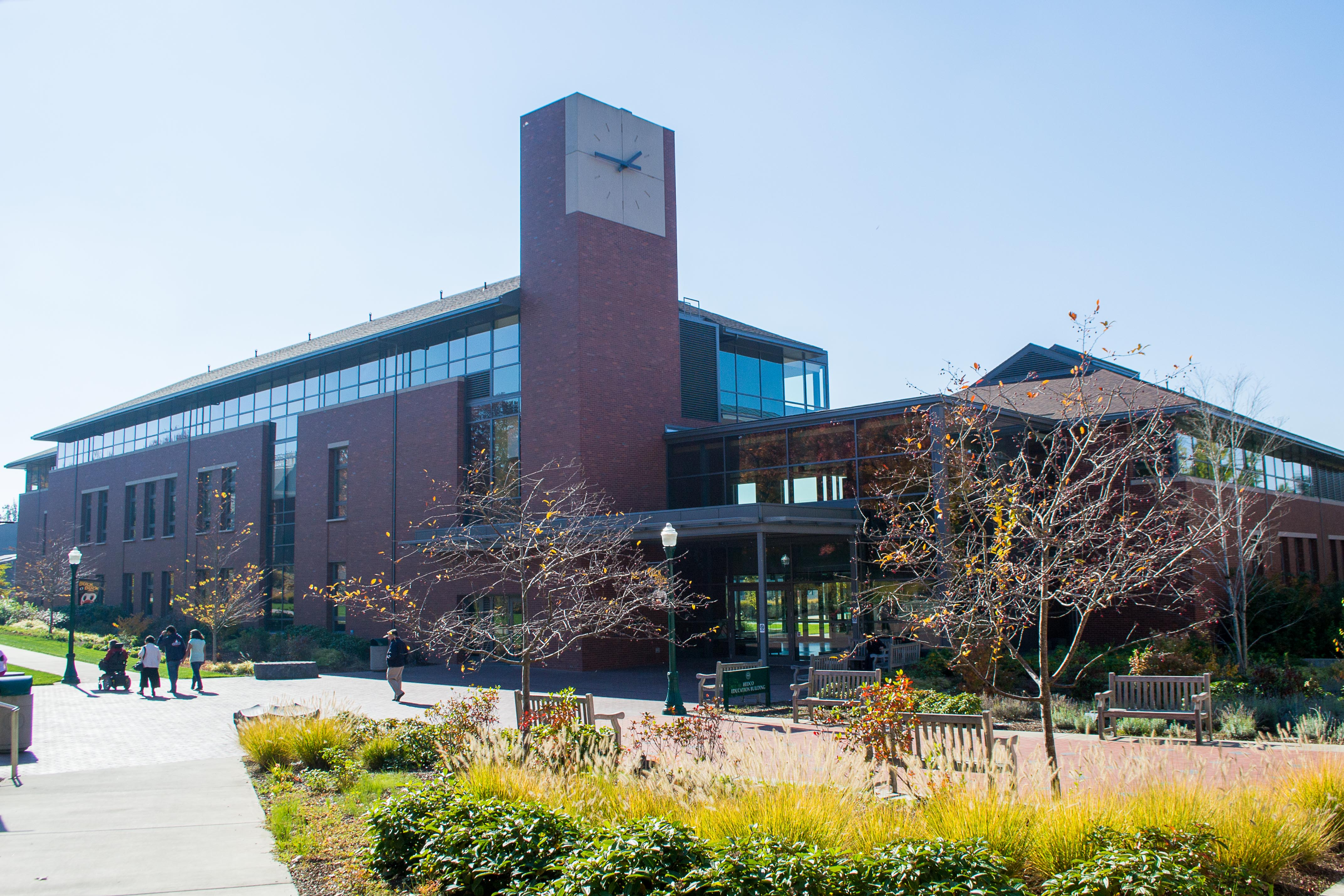 The HEDCO Education Building at the University of Oregon